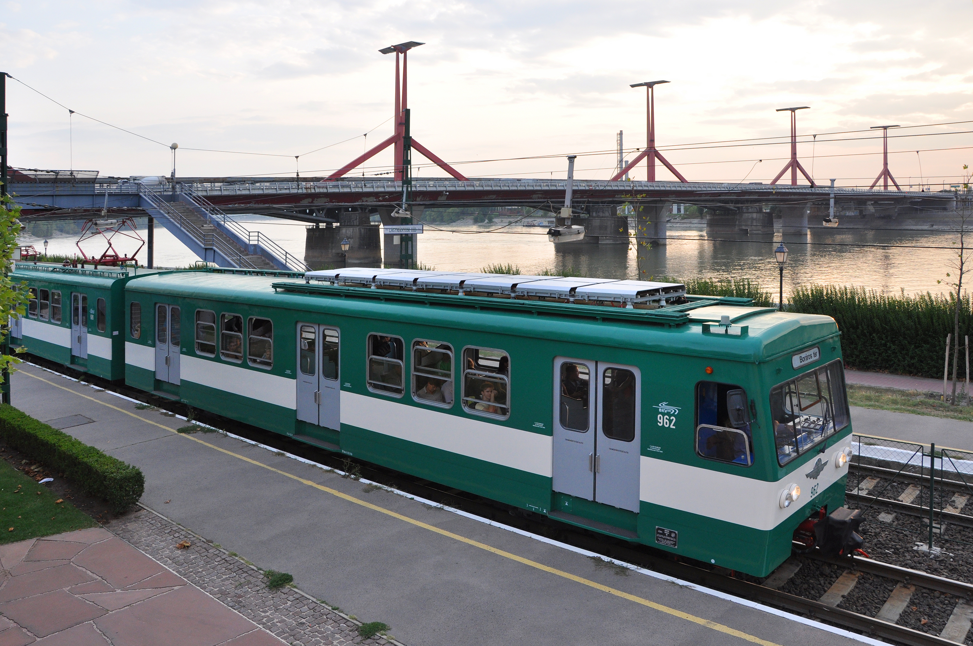 Budapest (Hungary): a local HÉV train at Lágymányosi (Rákóczi) híd station, on the line from Boráros tér to Csepel. In the background: the Lágymányosi Bridge.